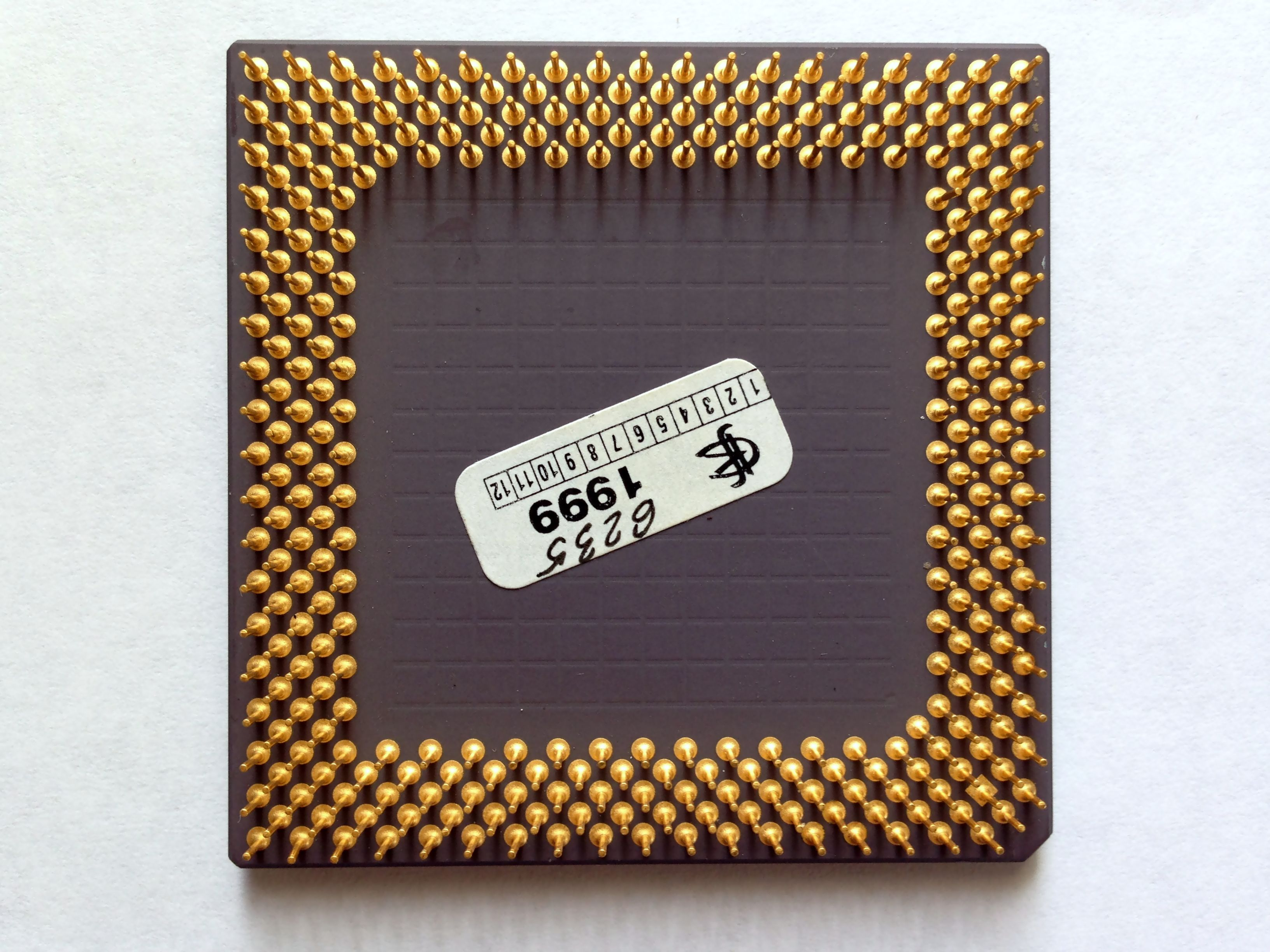 AMD K6-2 XT 450 mhz CPU back